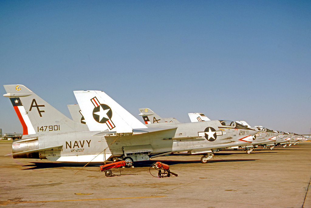 Vought F-8H Crusader II 147901 AF-211 of VF-202 Squadron US Navy at Dallas NAS in 1975